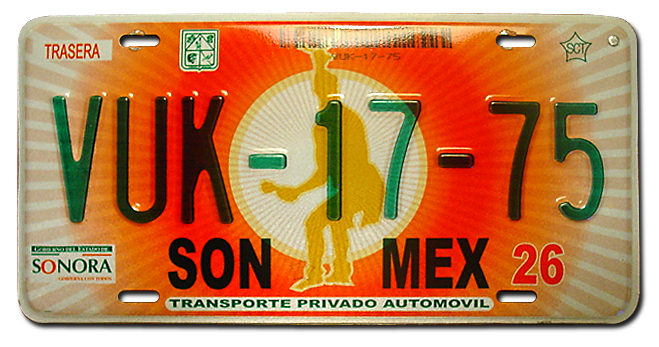 Sonora_mexico_license_plate